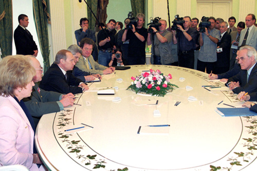 THE KREMLIN, MOSCOW. President Putin meeting with Greek National Defence Minister Akis Tsohatzopoulos.